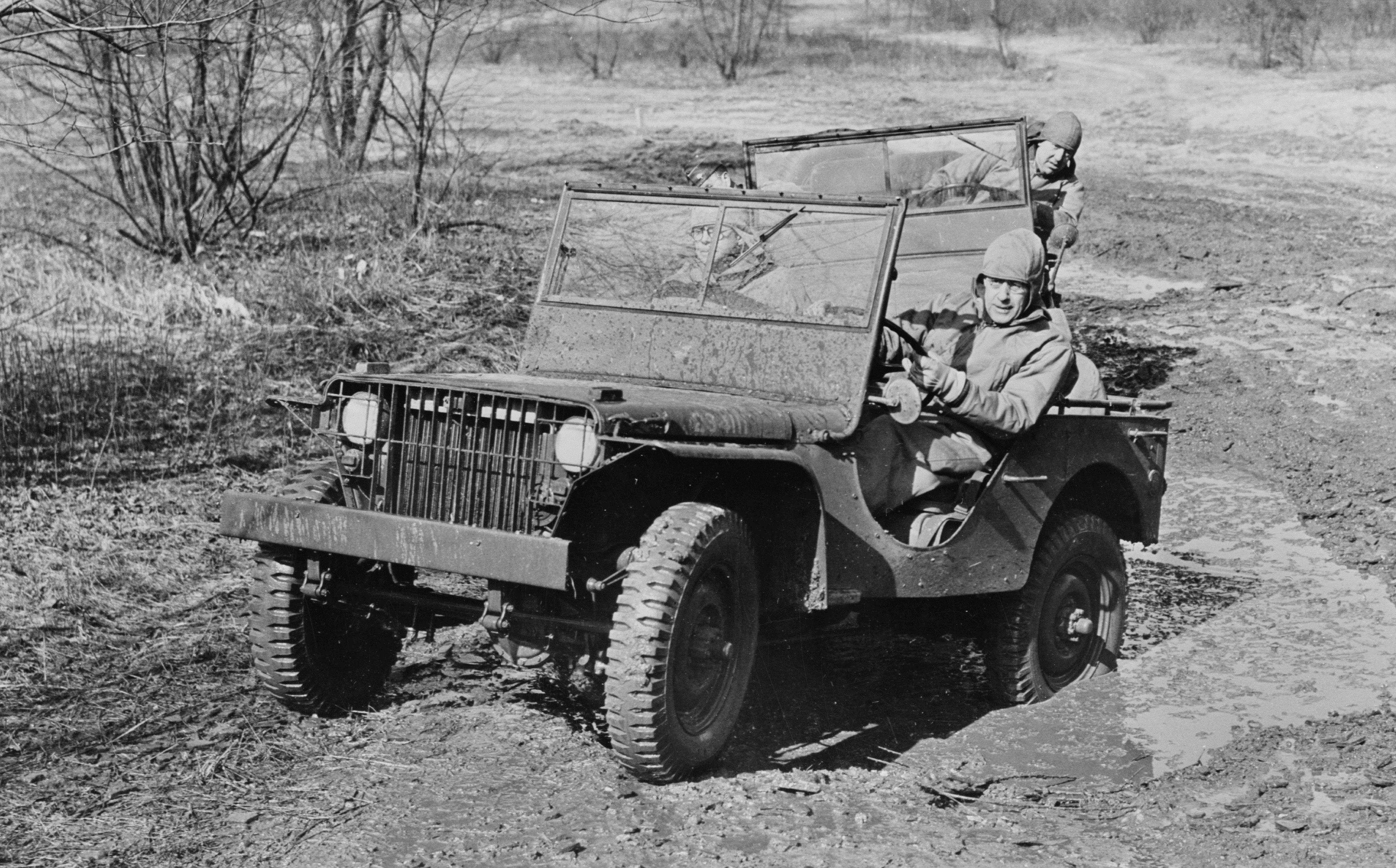 Baltimore, Maryland. Colonel H.J. Lawes, post commander, Holabird quartermaster depot and commandant of the quartermaster motor transport school at the wheel of a "jeep" giving his pupils first-hand instructions on the vehicle training ground during a two-week preventive maintenance for motor vehicles course for officers. Ford GP according to .